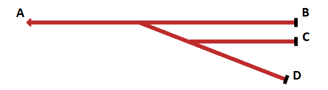 Inglenook Sidings puzzle track pattern.